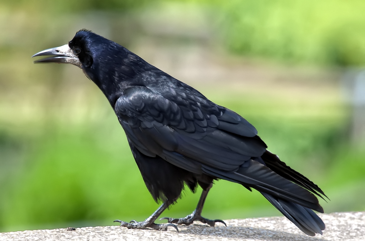 A Rook in Cookridge, Leeds, West Yorkshire, England.